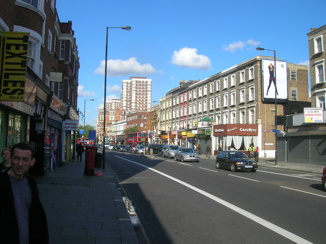 Goldhawk Road W12 Looking towards the junction with Woodger Road W12